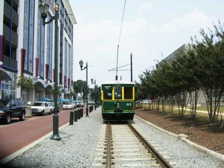 Trolley. Charlotte, NC. TSM. 2006.